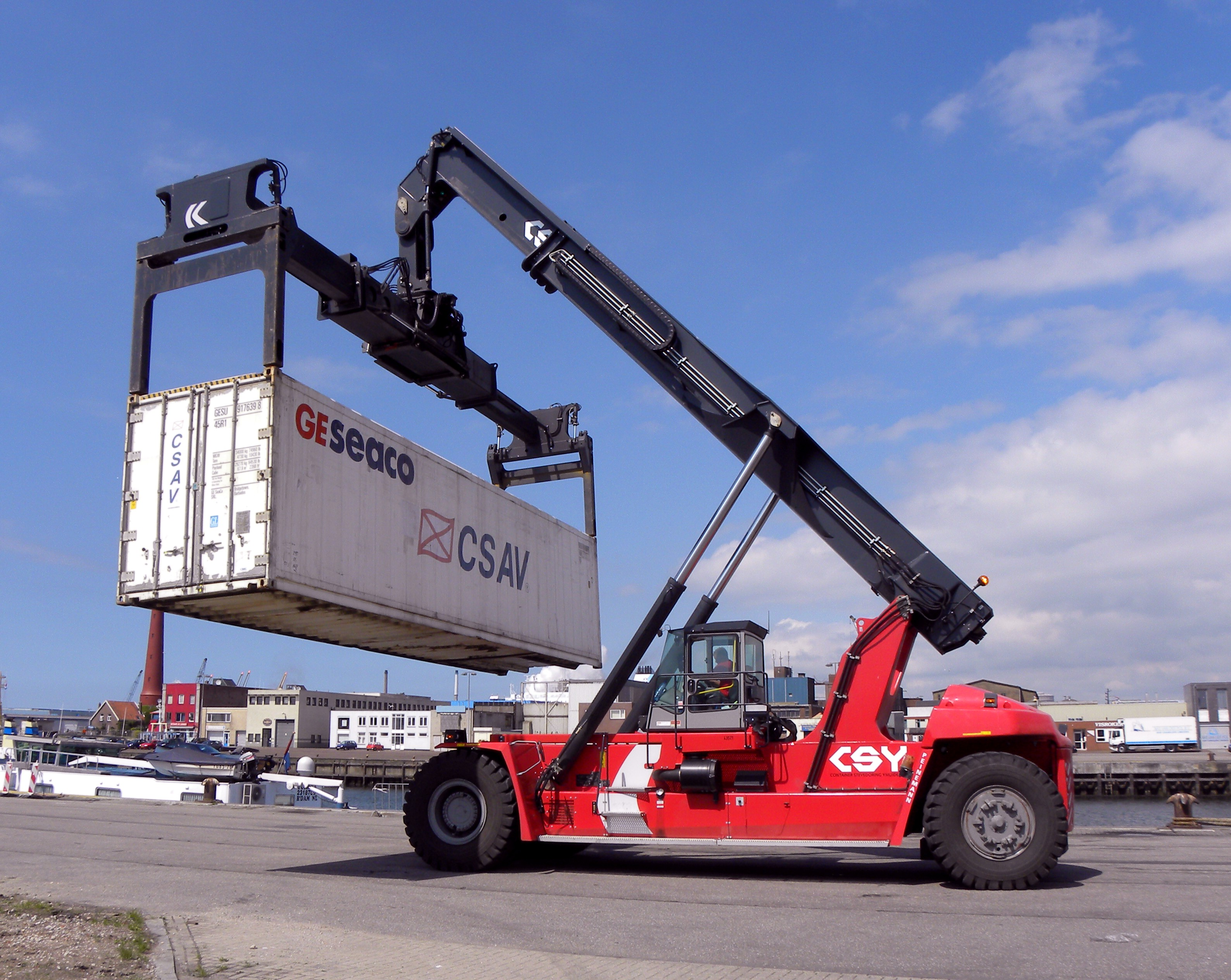 Kalmar Peinemann reachstacker.